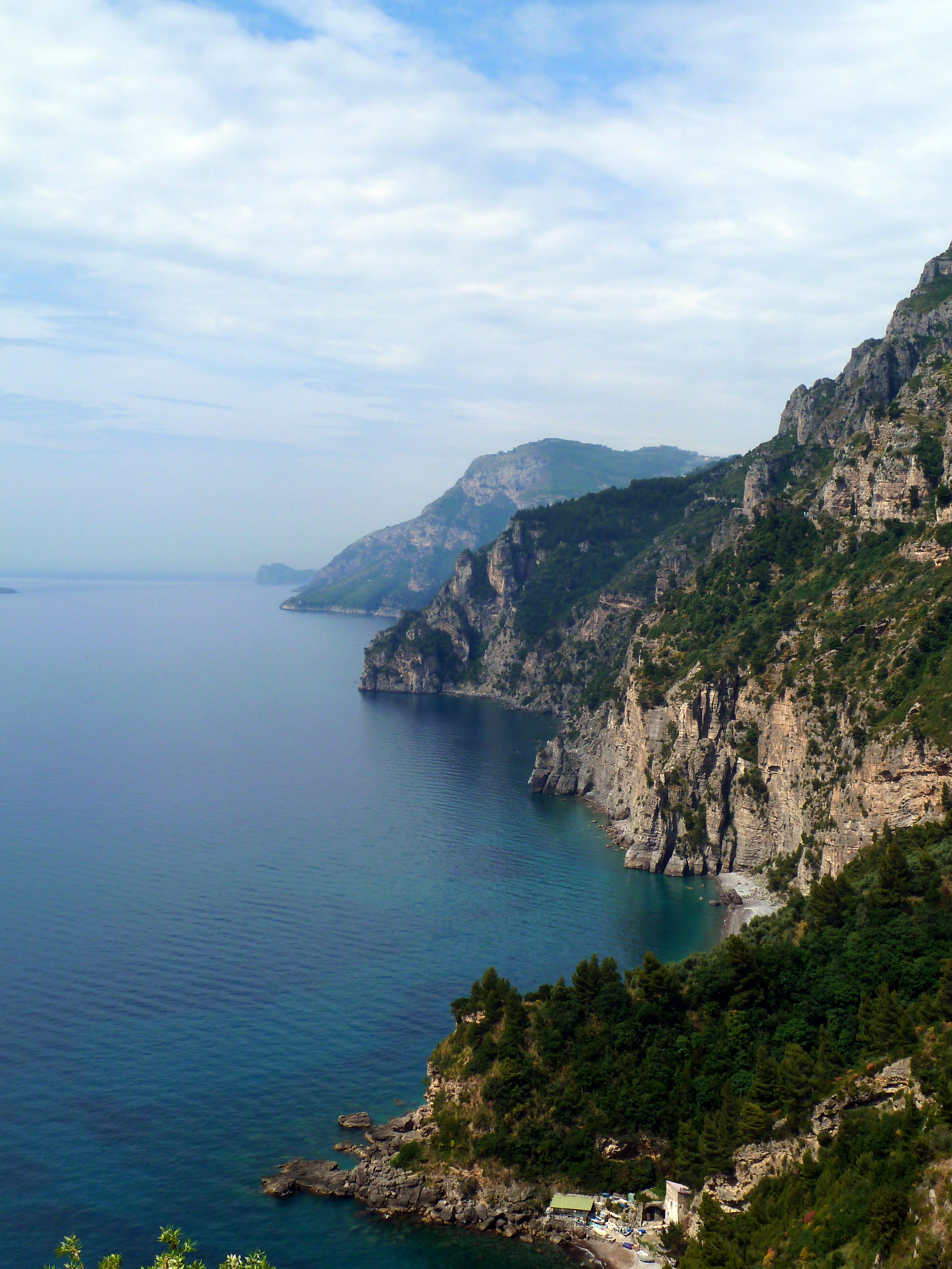 "Welcome to the Amalfi Coast. Its sheer cliffs and little nestled villages were isolated by all but water travel and mule trains until not very long ago" (Dave & Margie Hill)